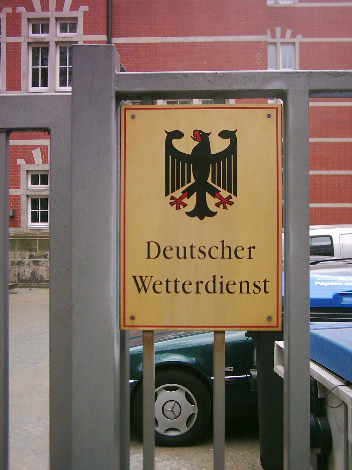 German Weather Service in Hamburg-St. Pauli, Germany.